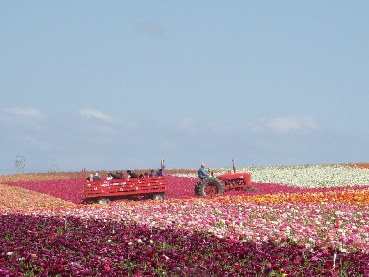 ట్రక్కులలో పూల తోటలను సందర్శిస్తున్న పర్యాటకులు.